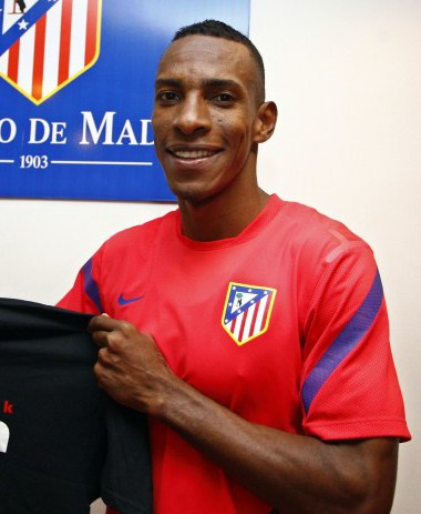 The Atletico Madrid and Colombia International, Luis Amaranto Perea, holding up the FARE t-shirt. Perea stated that "I support the fight against discrimination and I am in favor of social inclusion through sport and in particular football".